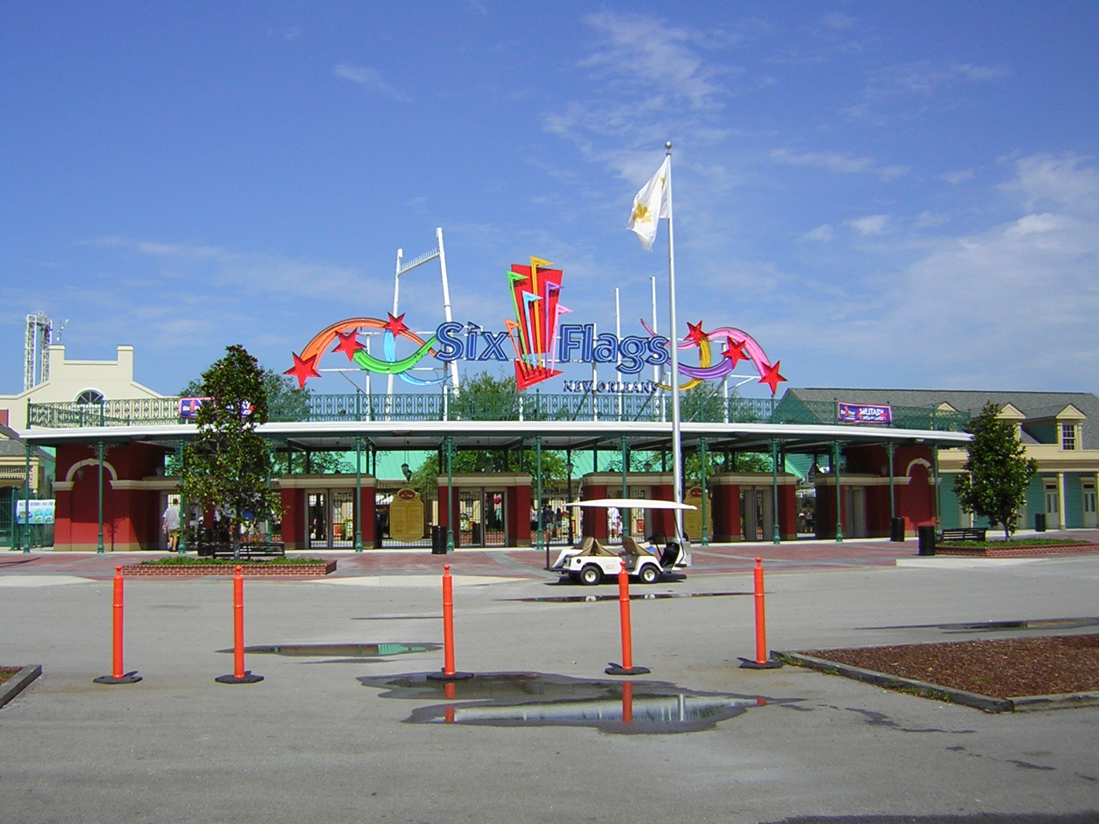 Six Flags New Orleans, 2004. We arrive at the main gate about 30 minutes before park opening to combat the morning rush. JUST LOOK AT THE CROWDS! No crowds at all actually.Main Gate